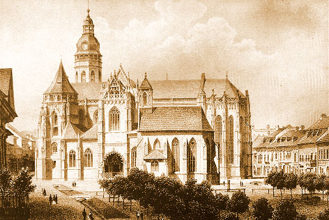 St.Elisabeth Cathedral, Košice